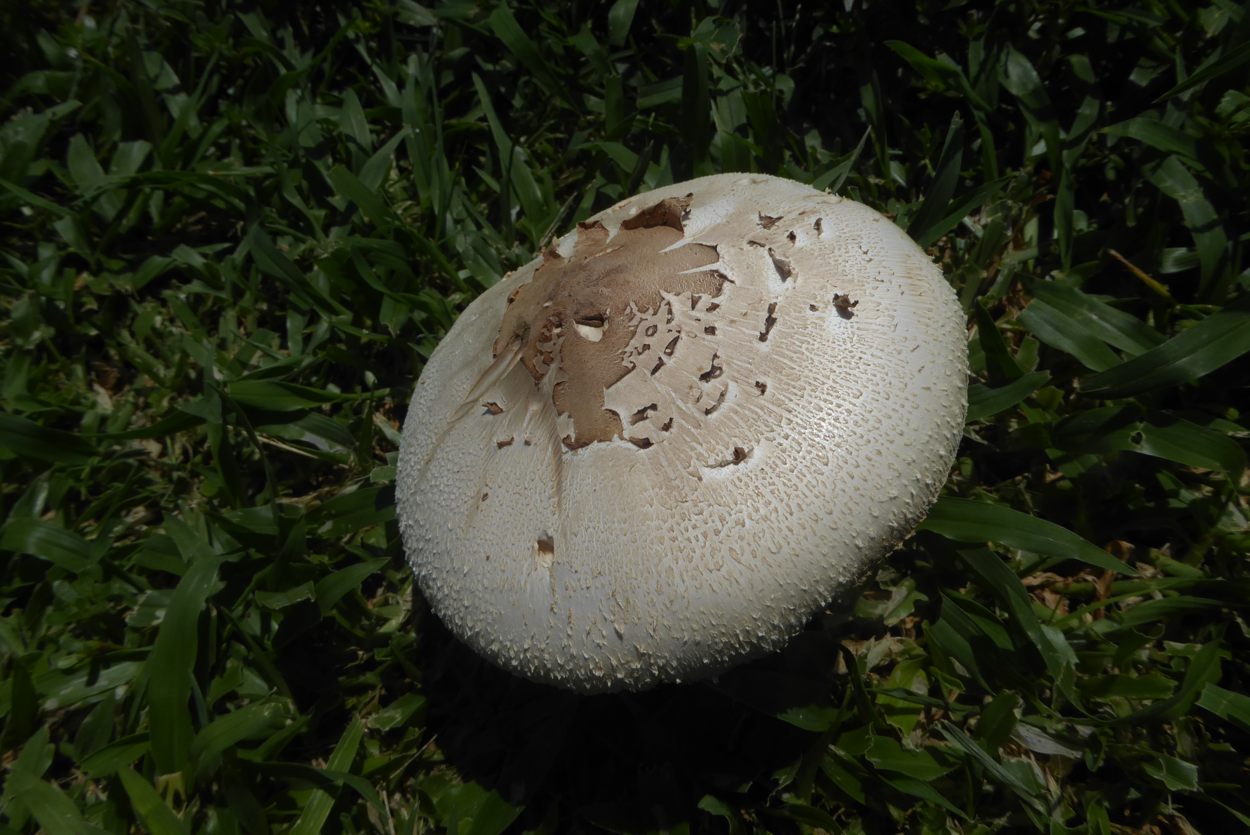 Edith Wolfson Park